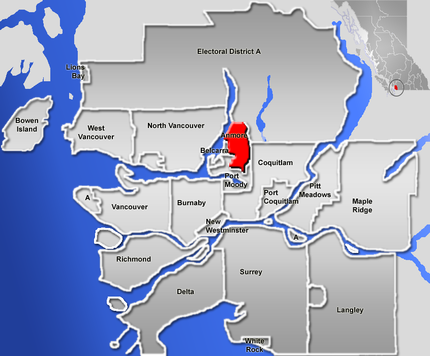 Location of Anmore, Greater Vancouver Area, British Columbia